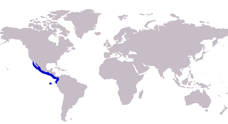 Distribution of Pacific crevalle jack, Caranx caninus using map based on GDFL image